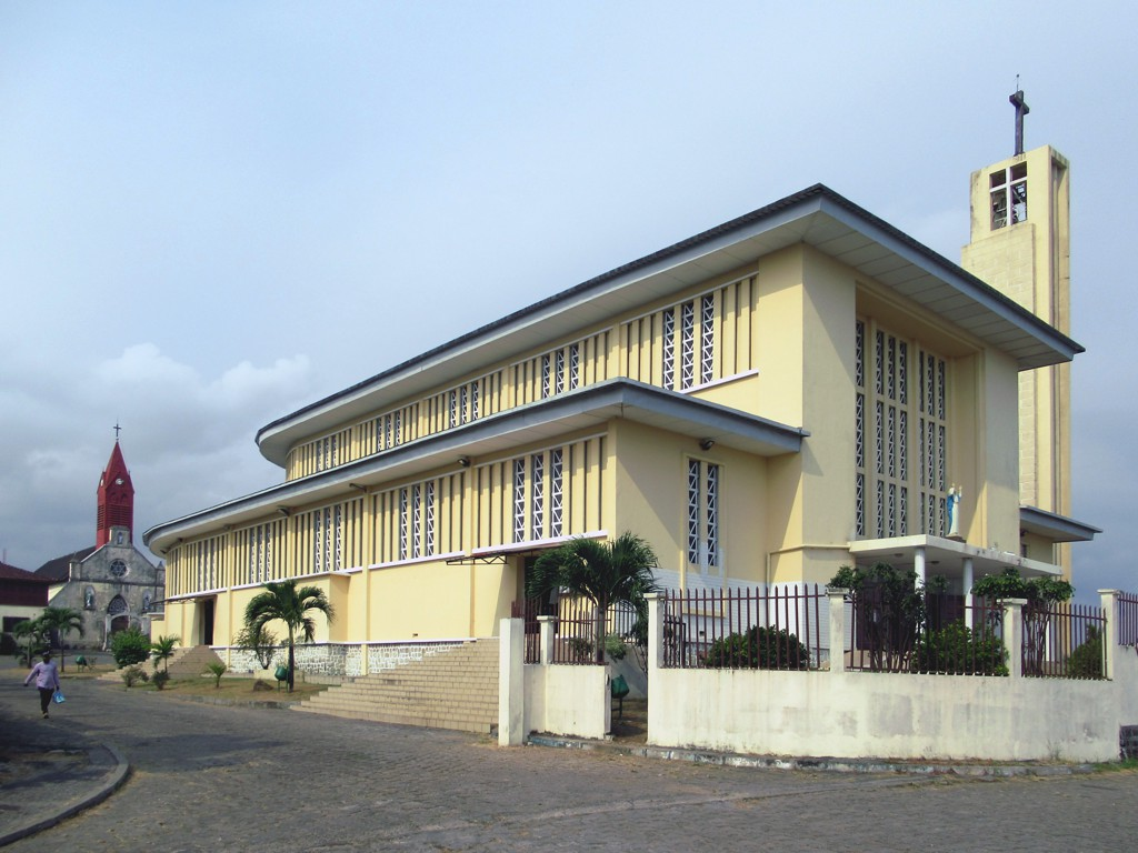 The Cathedral of Saint-Marie overlooking Port Mole in Libreville, Gabon, Central Africa, was built in front of a much older predecessor in 1958.